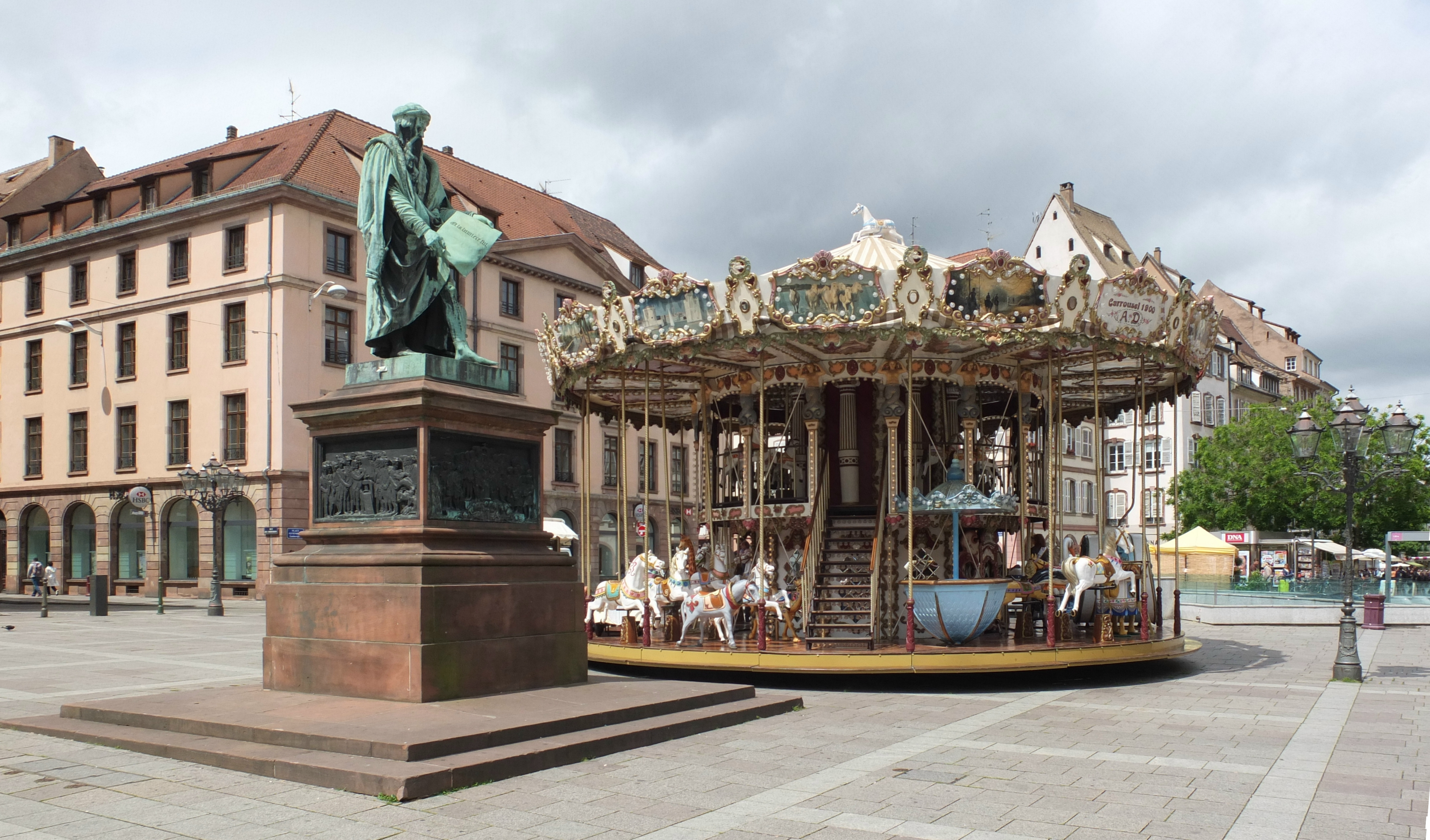 Strasbourg, Place Gutenberg with statue of Gutenberg and Carousel